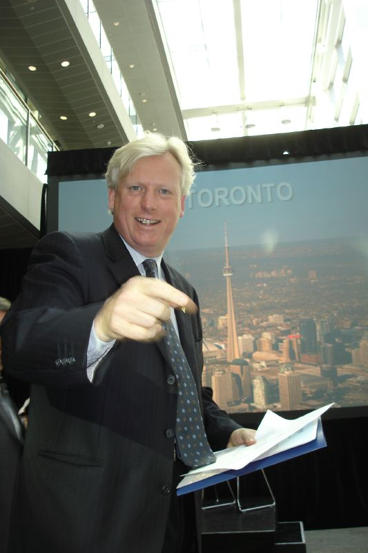 David Miller launching "ICT Toronto". Blog entry about event.